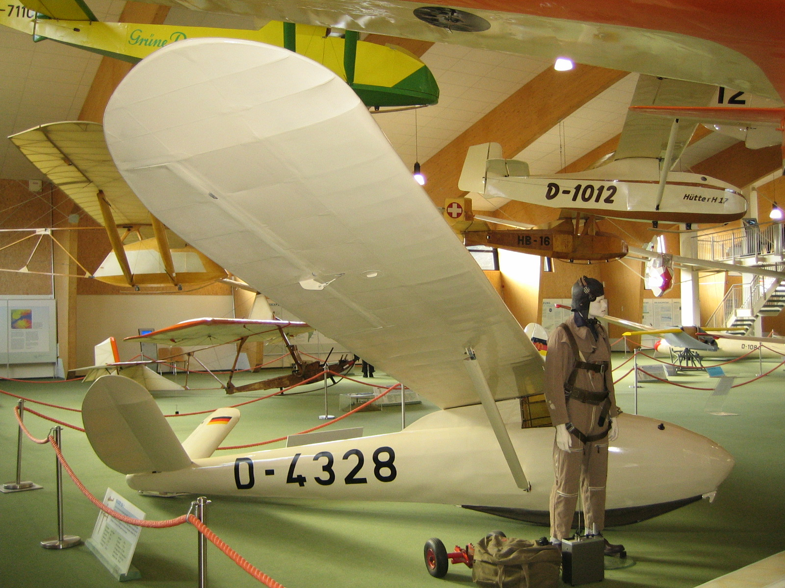 Glider Kaiser Ka 1, on display in the German Sailplane Museum